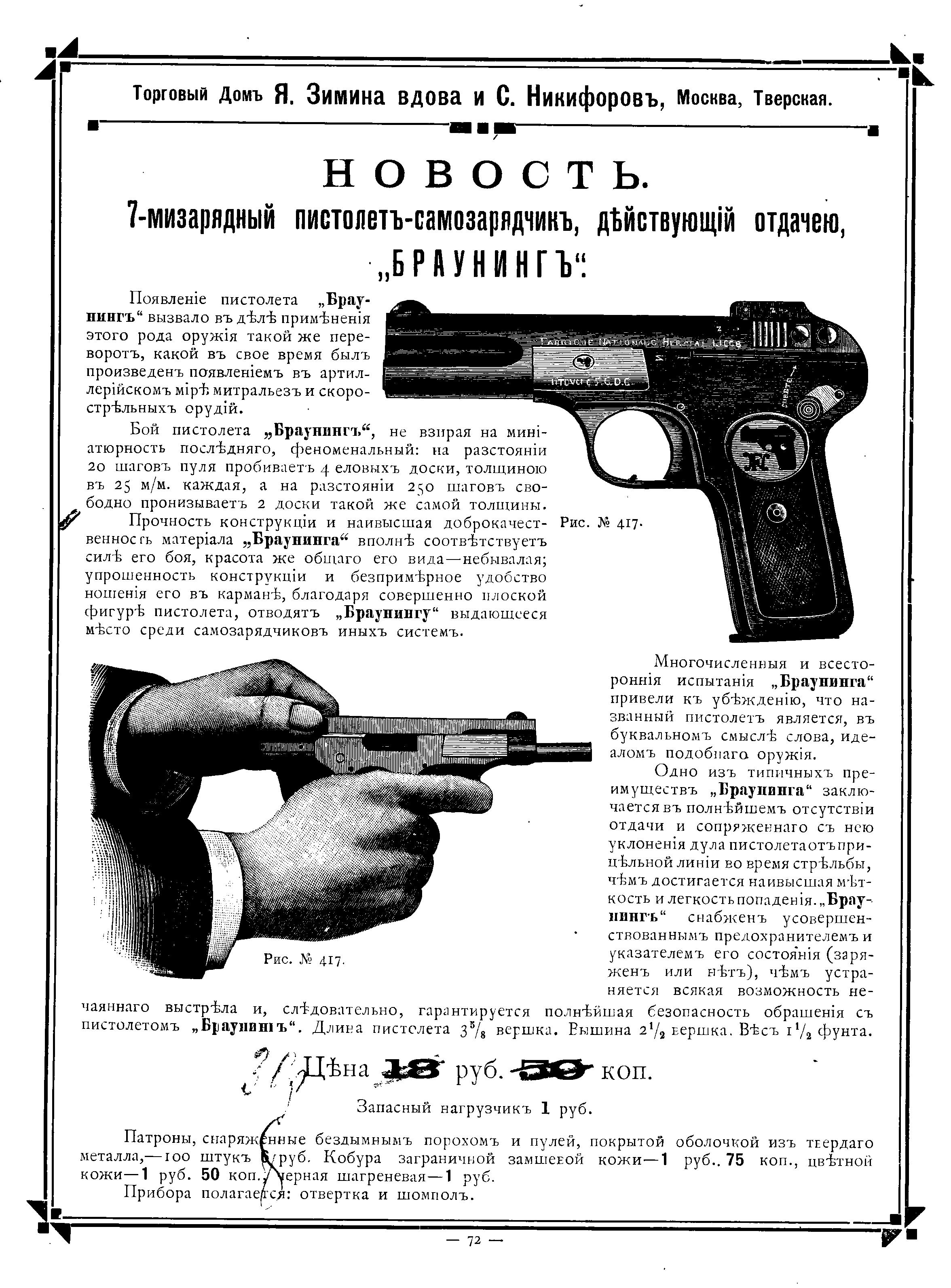 Browning M.1900 Russian advertising. The title says: «NEW. 7-round self-loading, recoil-acting pistol BROWNING»